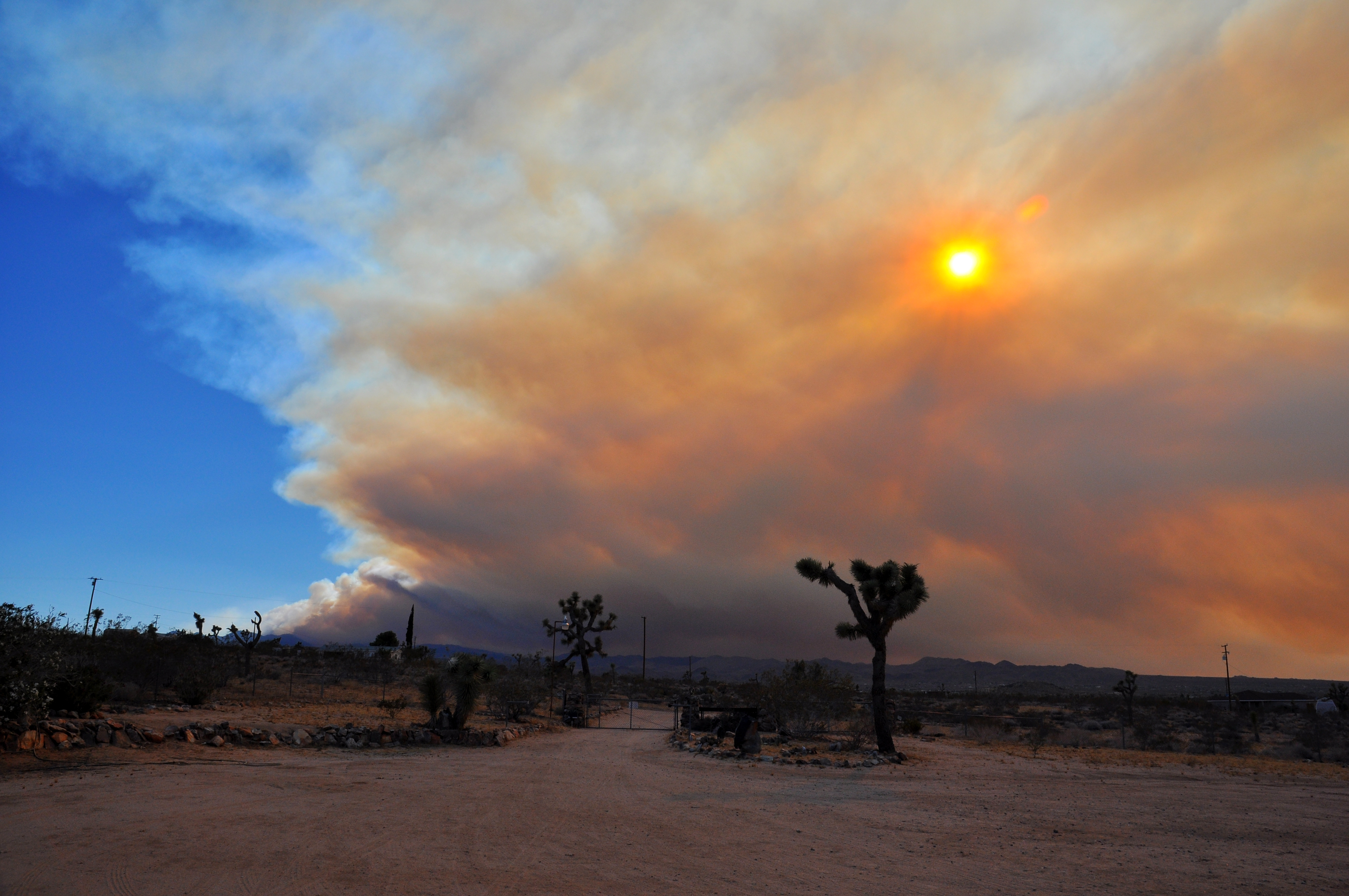 Barton Flats California fire as viewed from the eastern Mojave desert on day number seven.